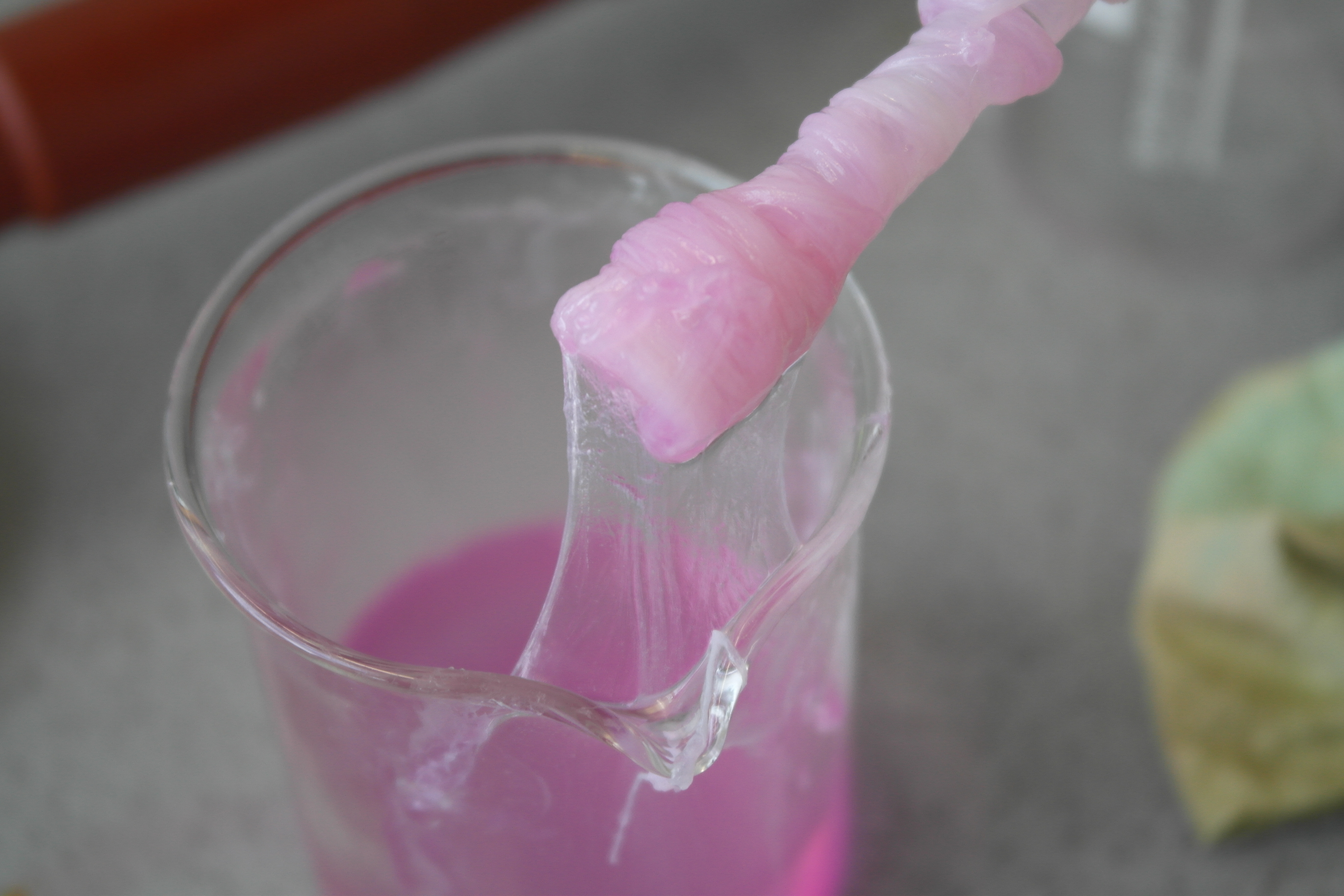 Synthesis of Nylon. The nylon is pink, because it is wet with a solution which has an indicator in it.